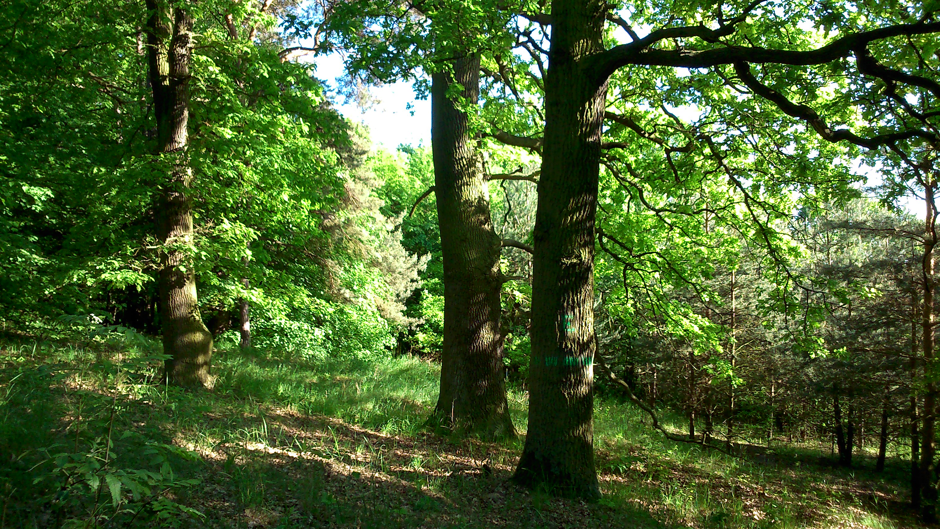 Former park in Węgrowo, Poland.